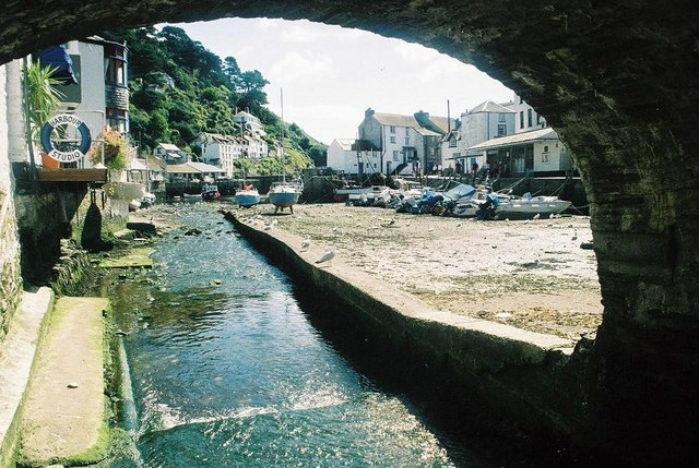 Polperro: harbour at low tide The low tide enabled me to take this picture without getting my feet wet - looking out from the bridge where the river emerges into the harbour. Compare 571604 (from nearby) and 571569 (looking towards the camera).